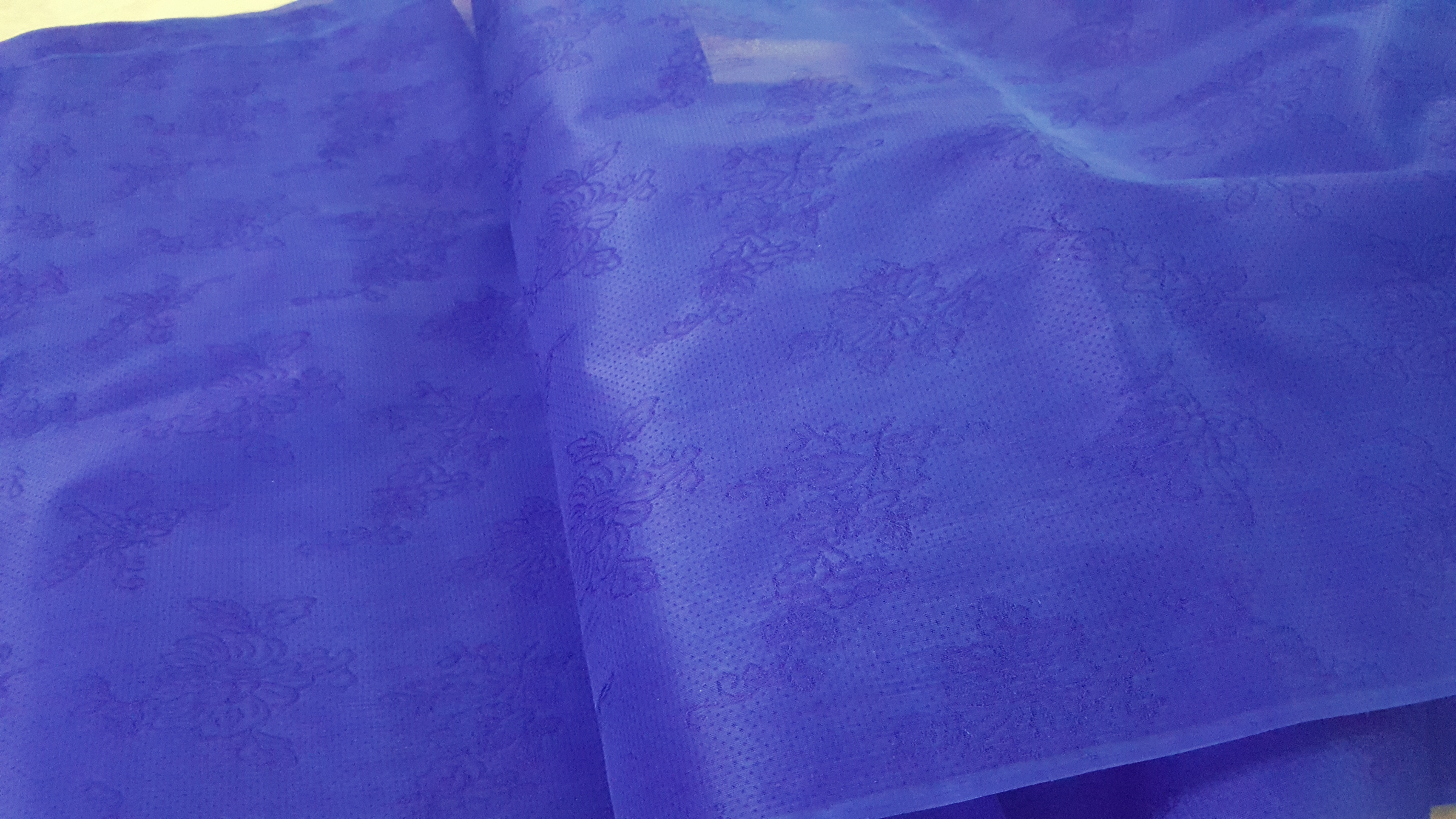 gauze from Van Phuc village, Hanoi